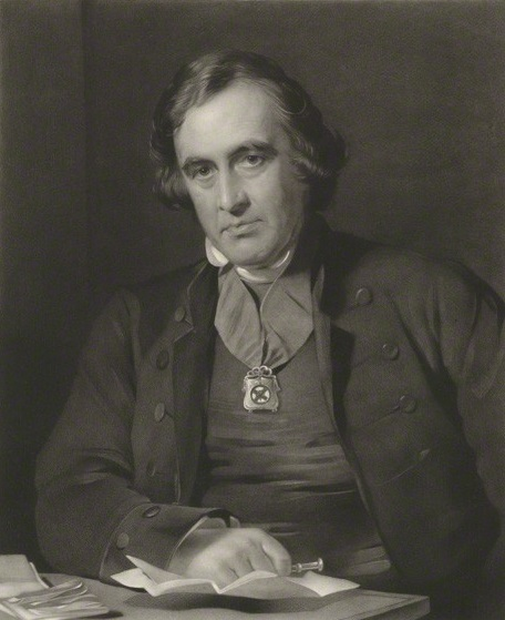 Drawing of Richard Chenevix Trench, December 1, 1863